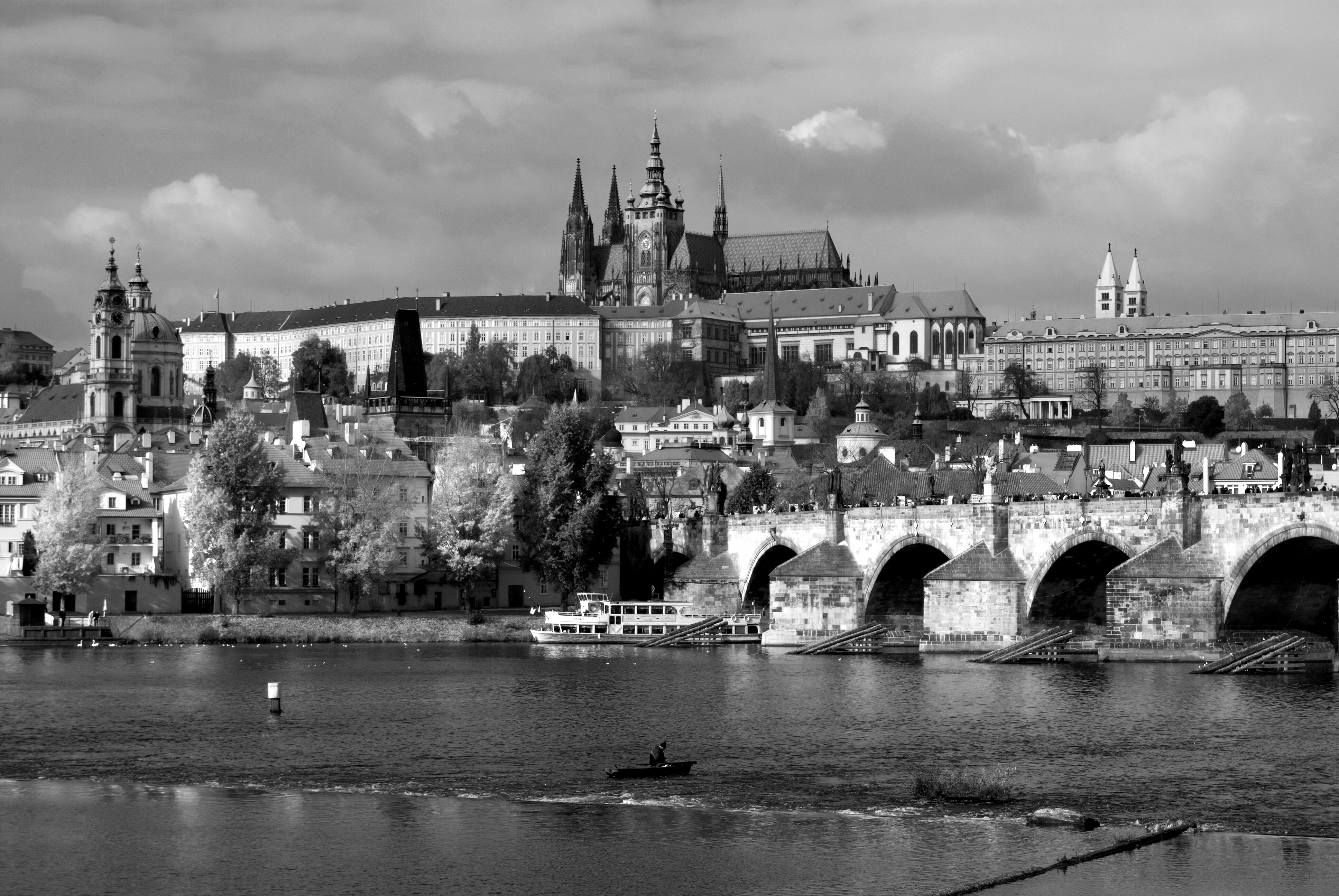 Czech Republic. Prague. Prague castle and Charles bridge. Vltava river.